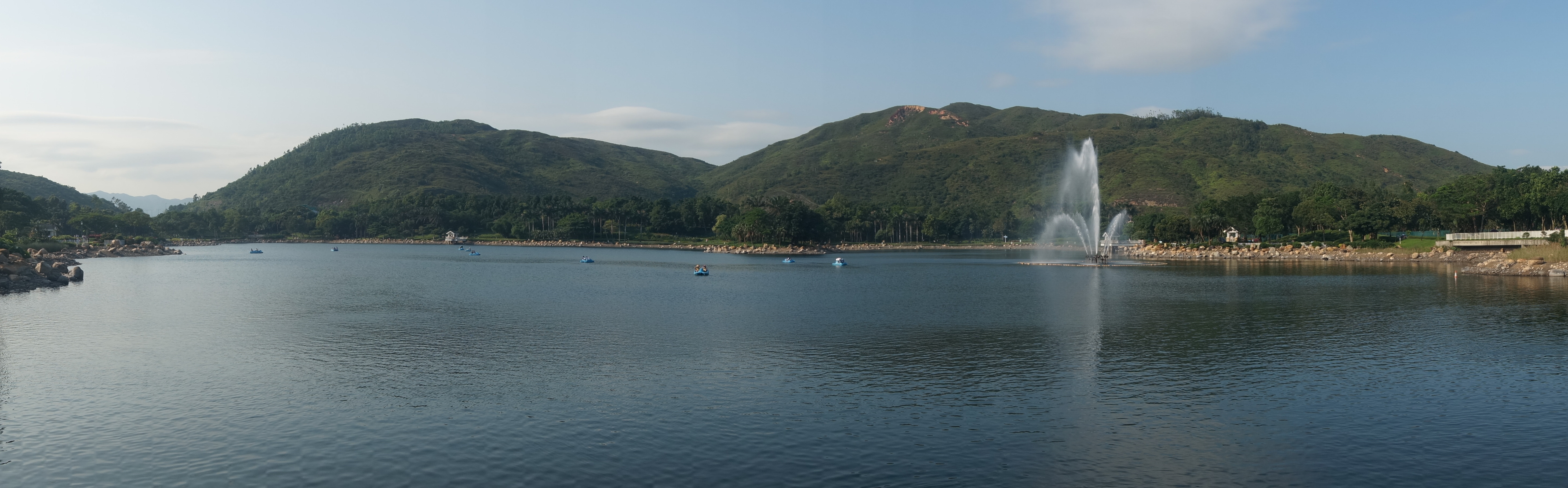 Inspiration Lake Recreation Centre~May 2019